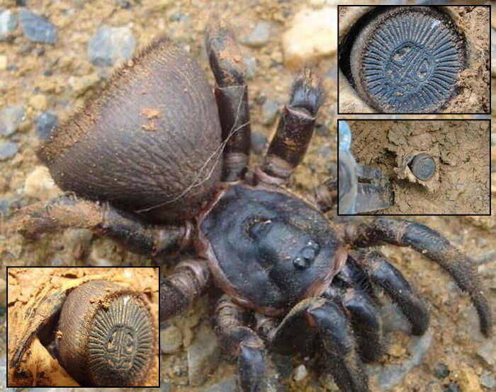 Cyclocosmia Ausserer - Циклокосмия